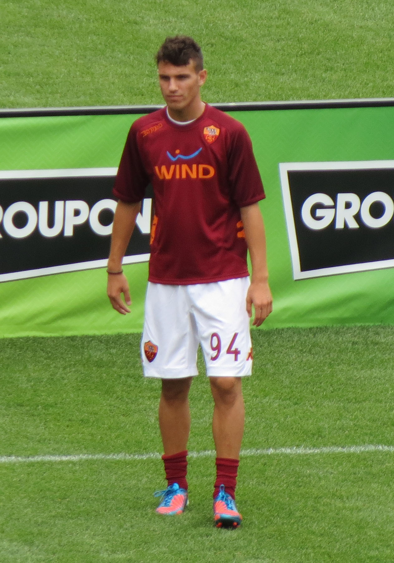 Valerio Verre of AS Roma during training.